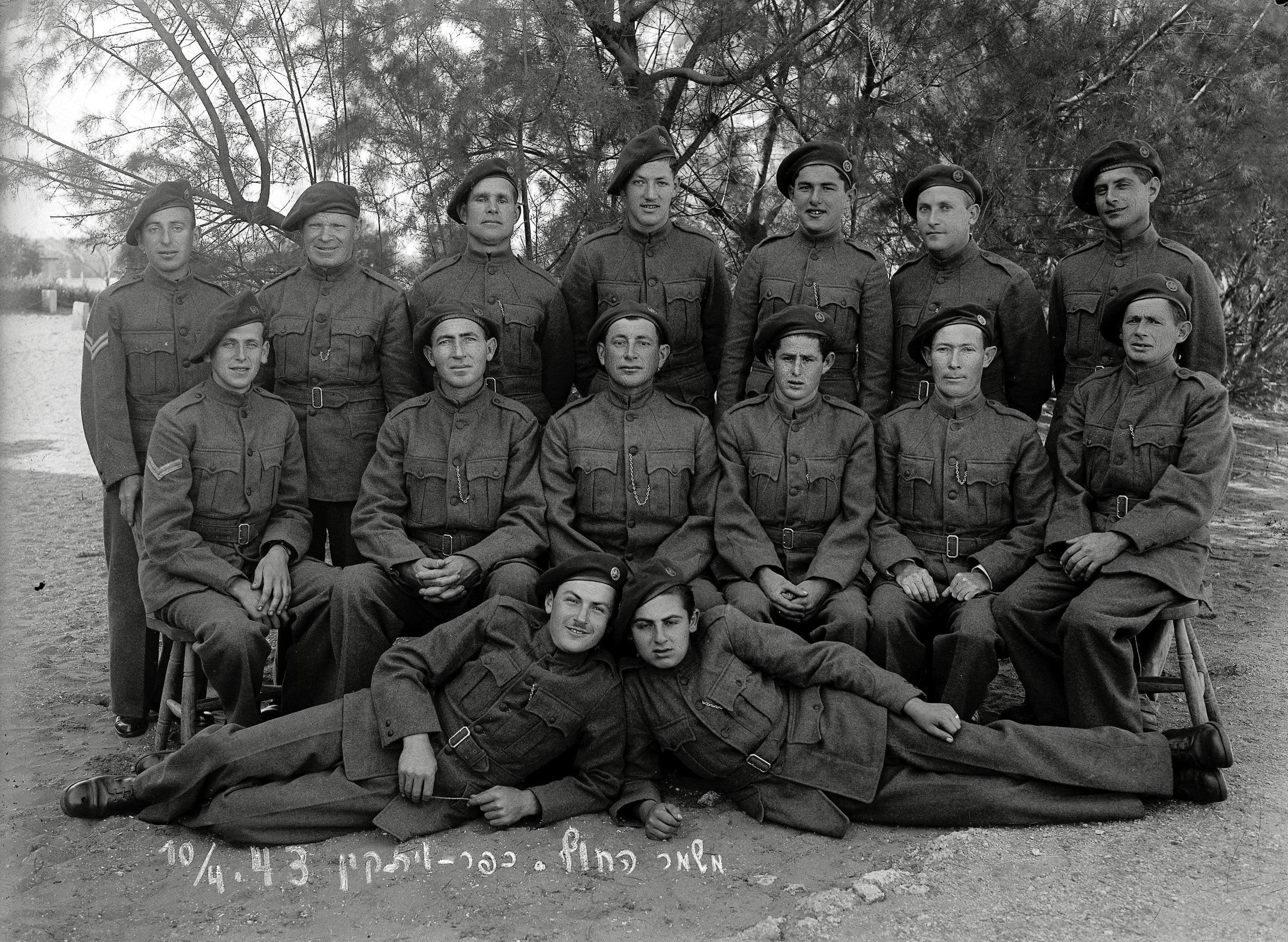 A JOINT PHOTO OF THE COAST GUARD, IN KFAR VITKIN. צילום משותף של קבוצת "משמר החוף" בכפר ויתקין.